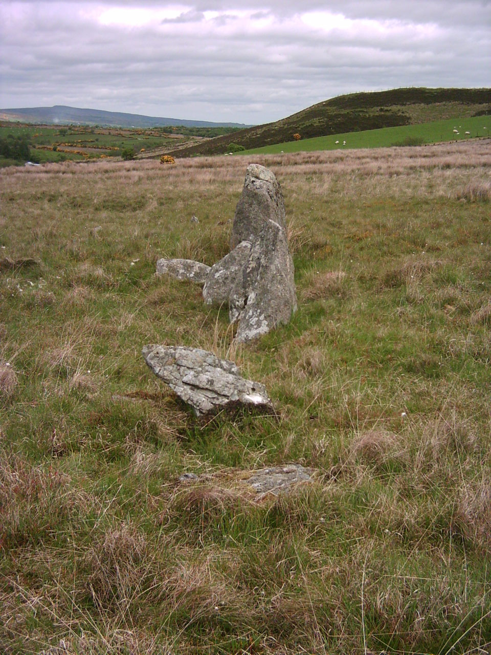 A stone row on peatland in the south of the county. If you look along the line of the stones you can see it points to where the close horizon meets the distant horizon. This seems to be common for stone rows in this region.